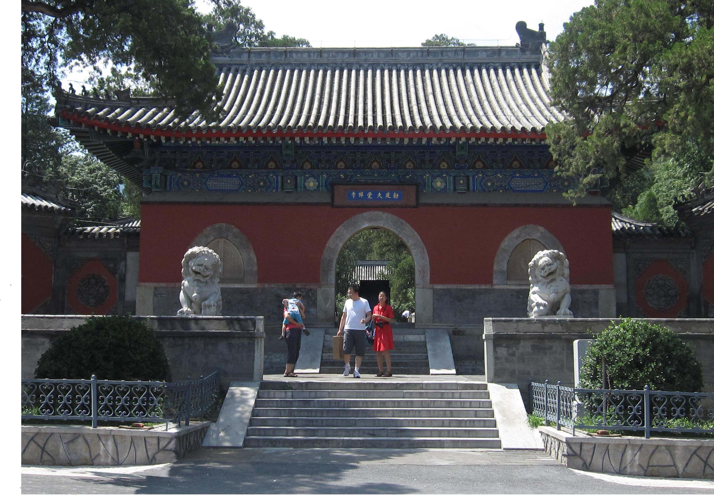 The main entrance of the Dajue Temple in Beijing